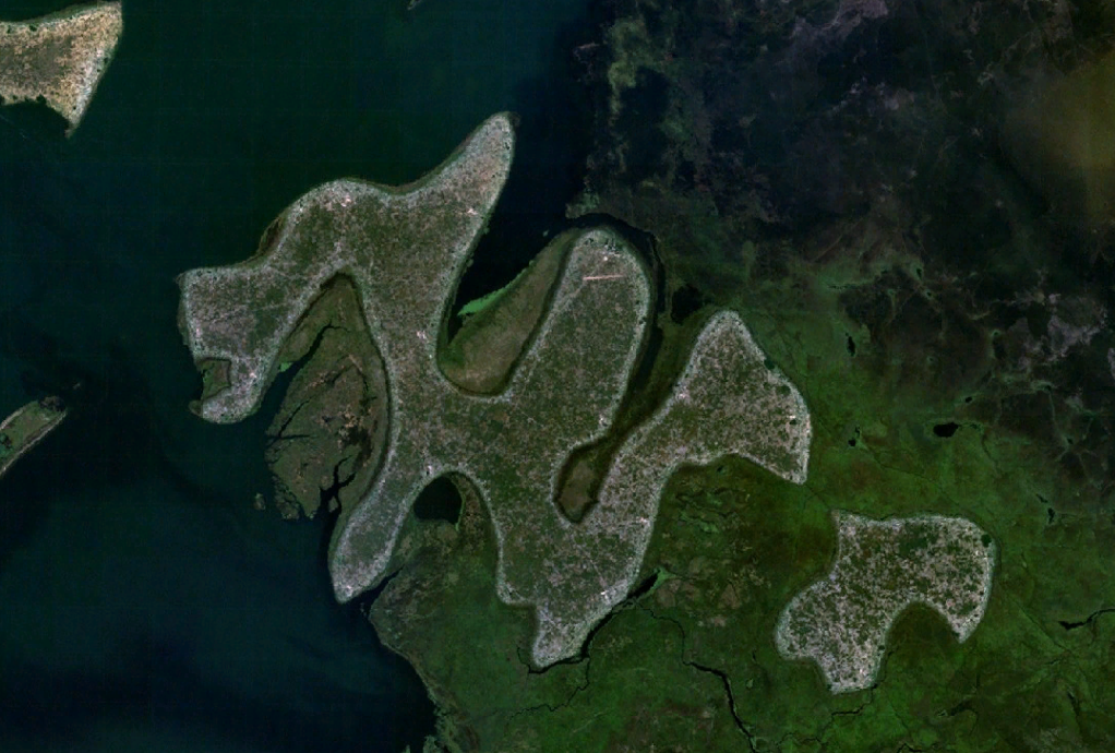 Chilubi and Nsumbu Islands, Lake Bengweulu, Zambia